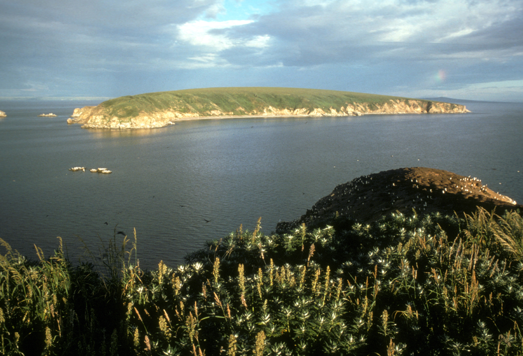 Chamisso Island in the Chamisso Wilderness in the U.S. state of Alaska. Photo taken from Puffin Island.